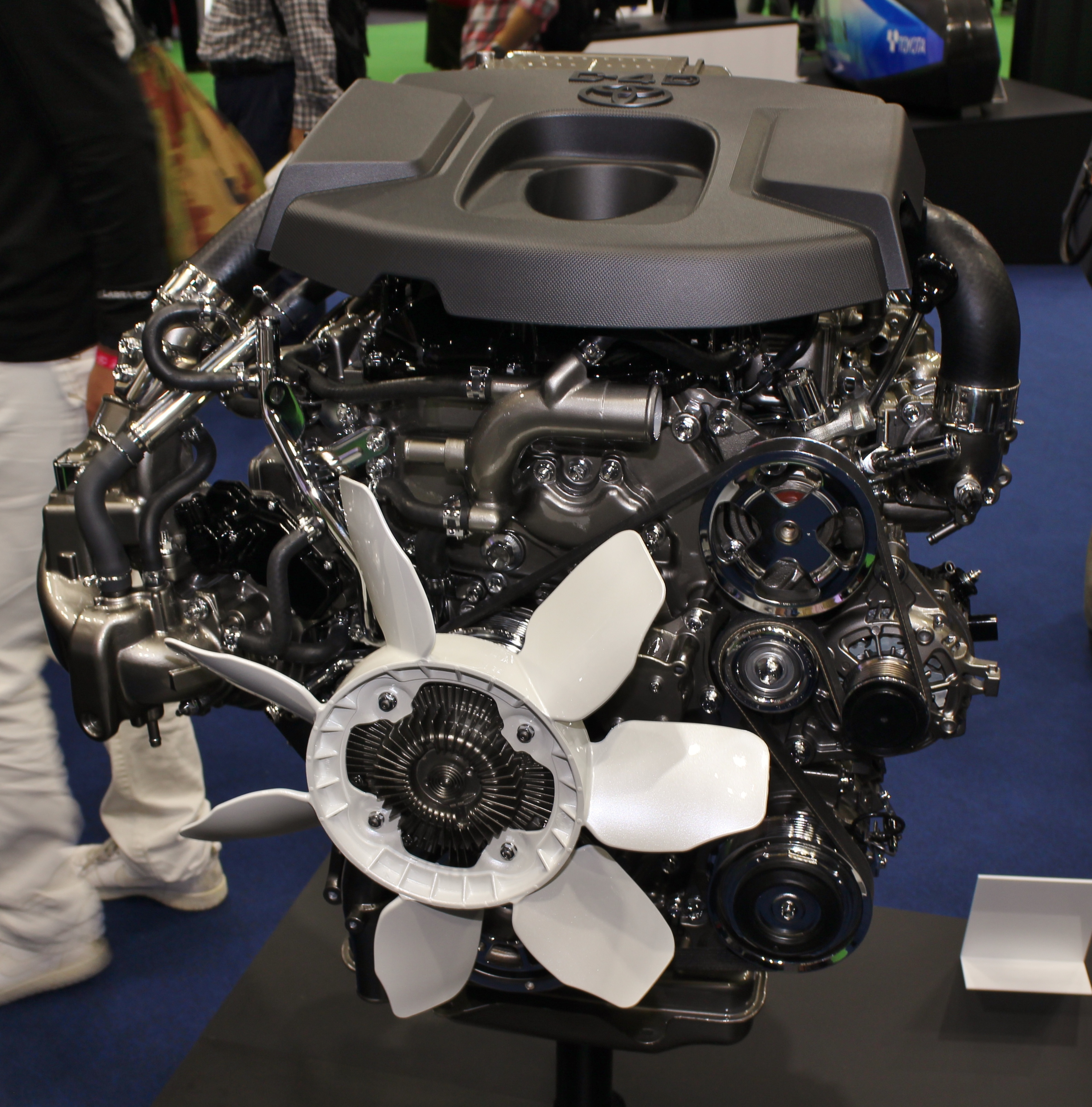 Toyota 1GD-FTV for GranAce. Toyota Industries booth at Tokyo Motor Show 2019.